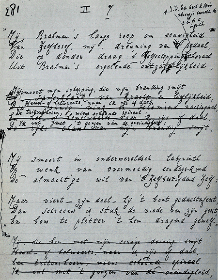 Handschrift van Dèr Mouw. In: J.A. Dèr Mouw: Brieven aan Frederik van Eeden. Letterkundig Museum, Den Haag, 1971